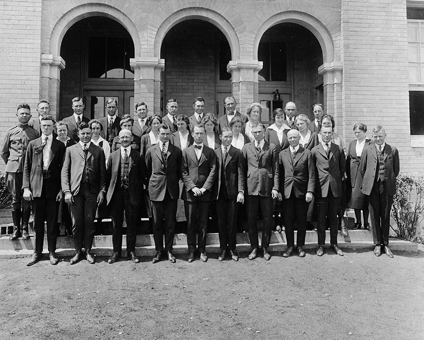 Grubbs Vocational College faculty group photo.